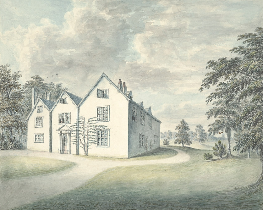 Plas Gronow, 1794